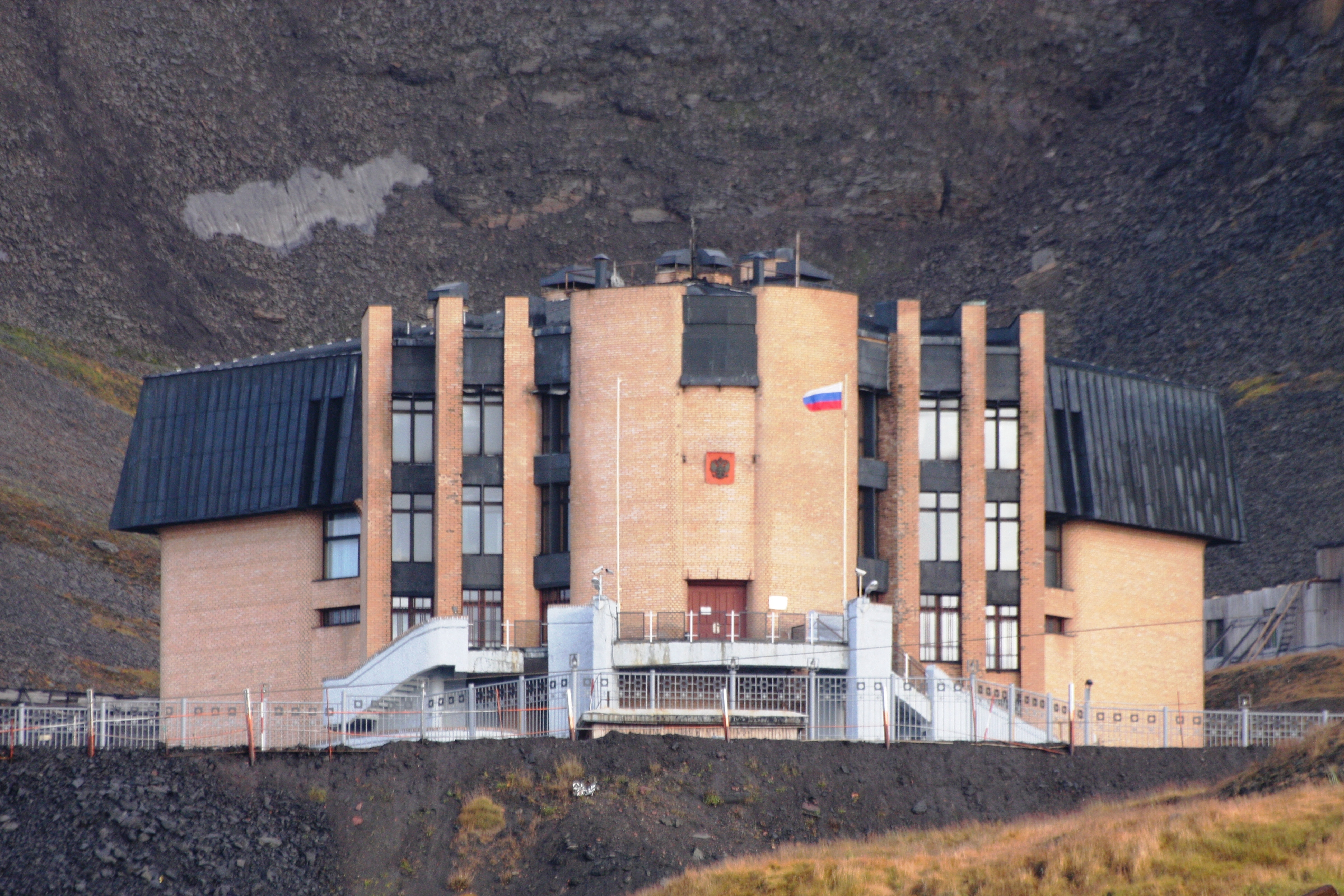 Barentsburg, Svalbard. The Consullaire General office